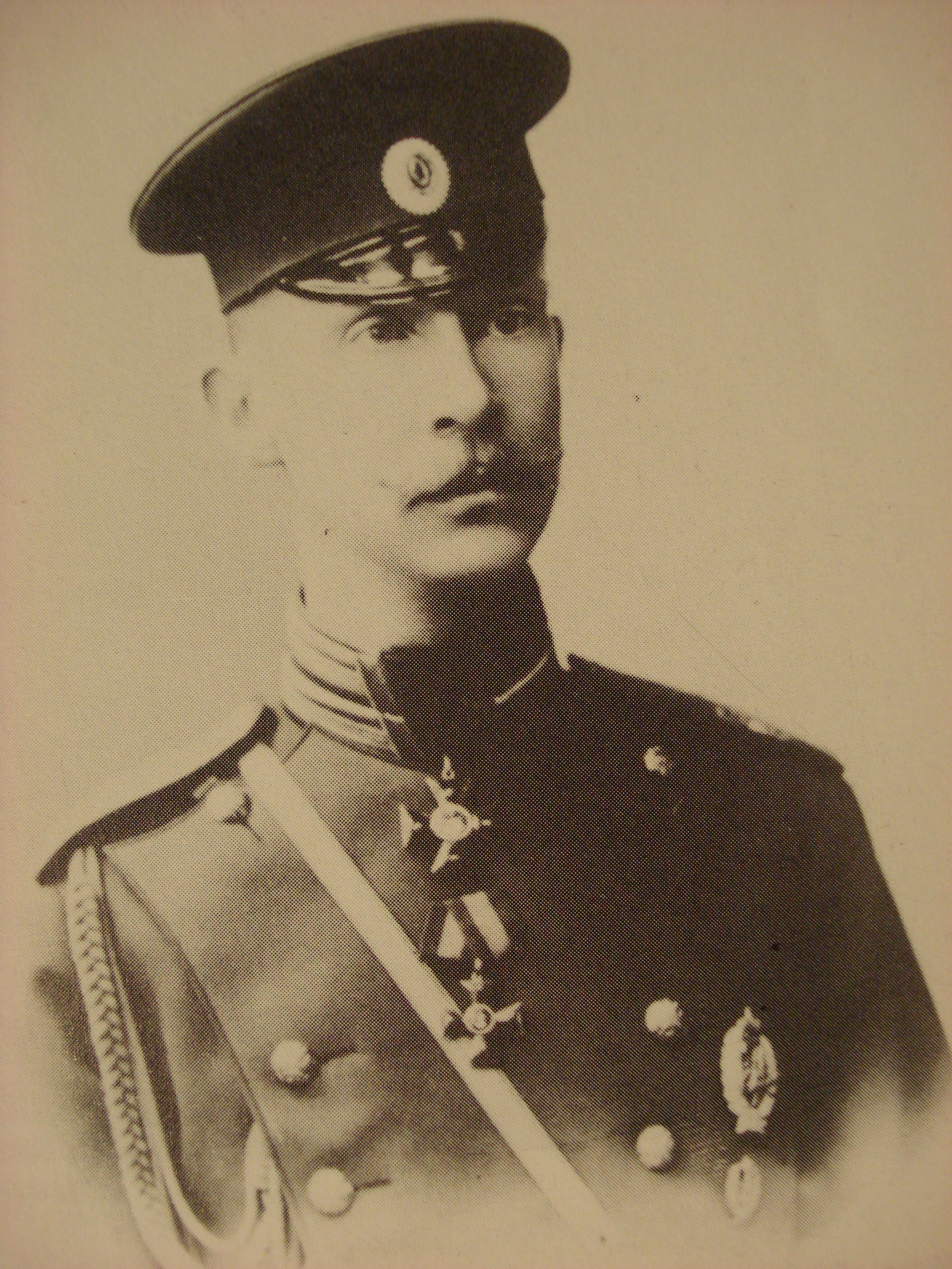 Grand Duke Dimitri Konstantinovich 1885